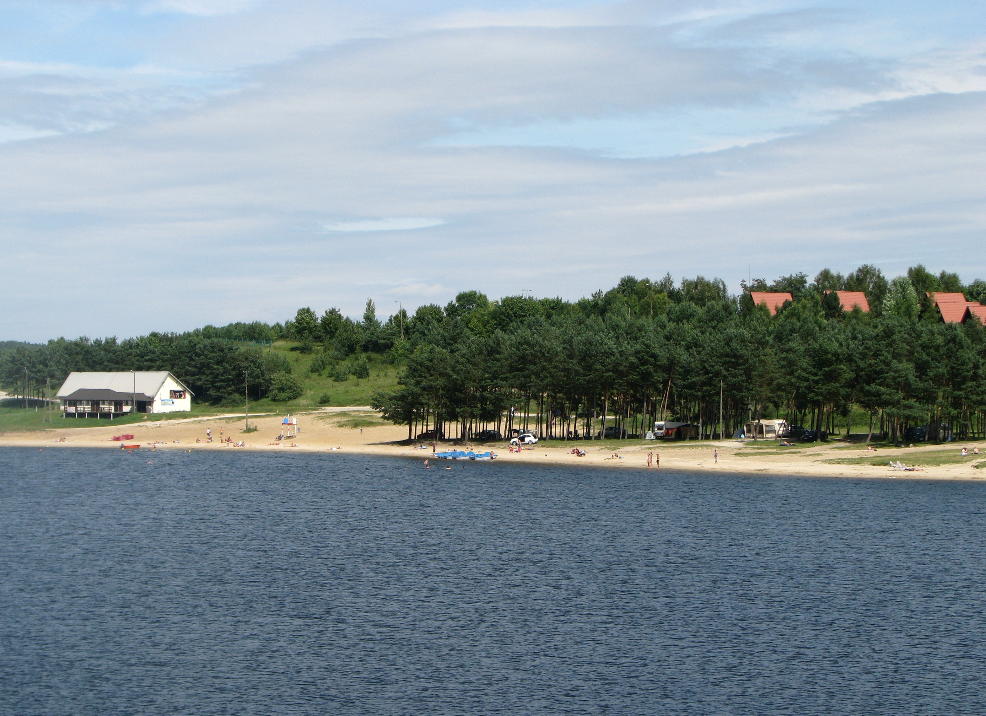 Chańcza Lake on Czarna Staszowska River, Poland.